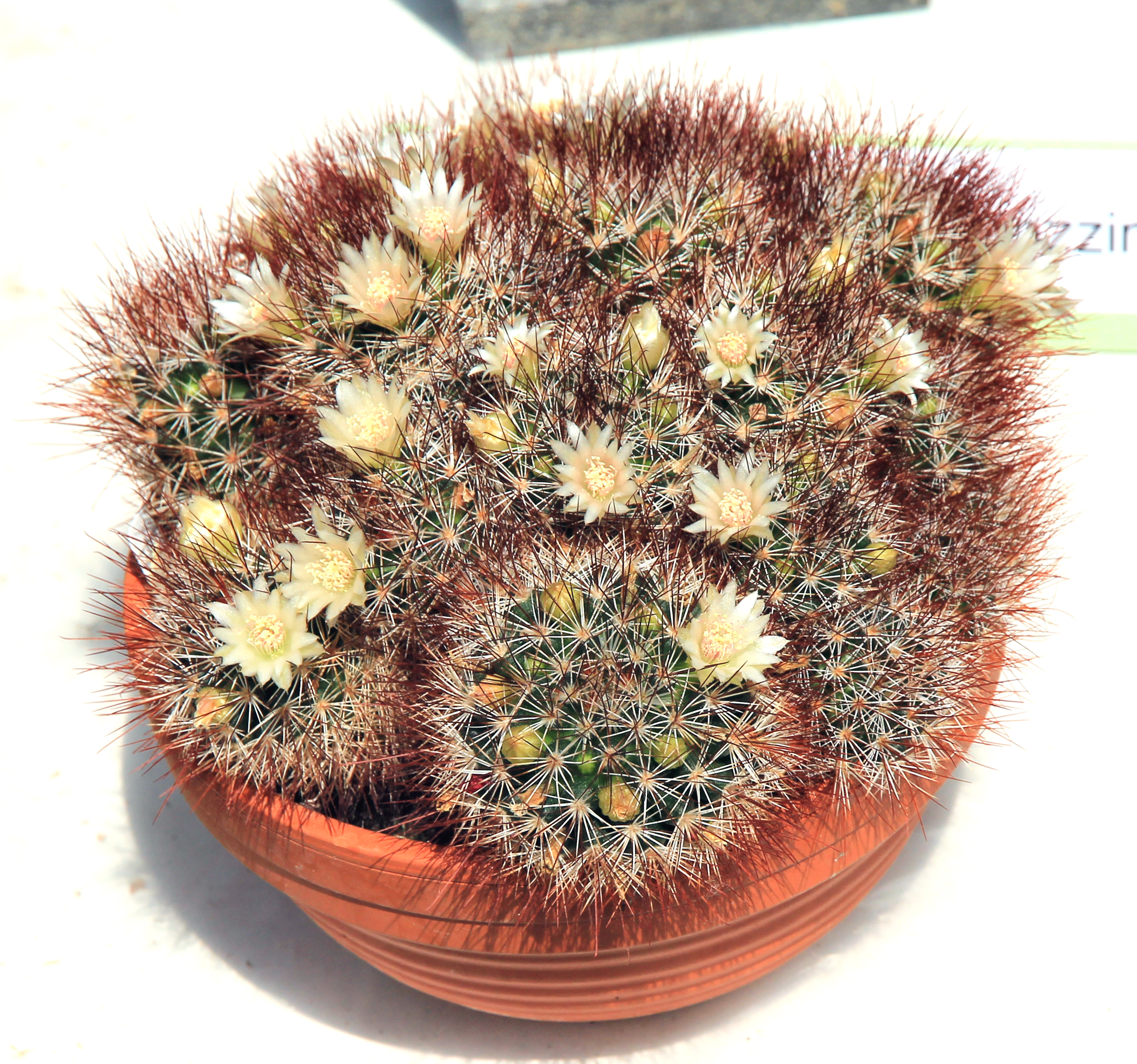 Cactus Mammillaria marcosii on Exhibition of Cactuses and succulets in the Botanical Gardens of Charles University, 28.05. - 15.06.2016 Prague, Czech Republic